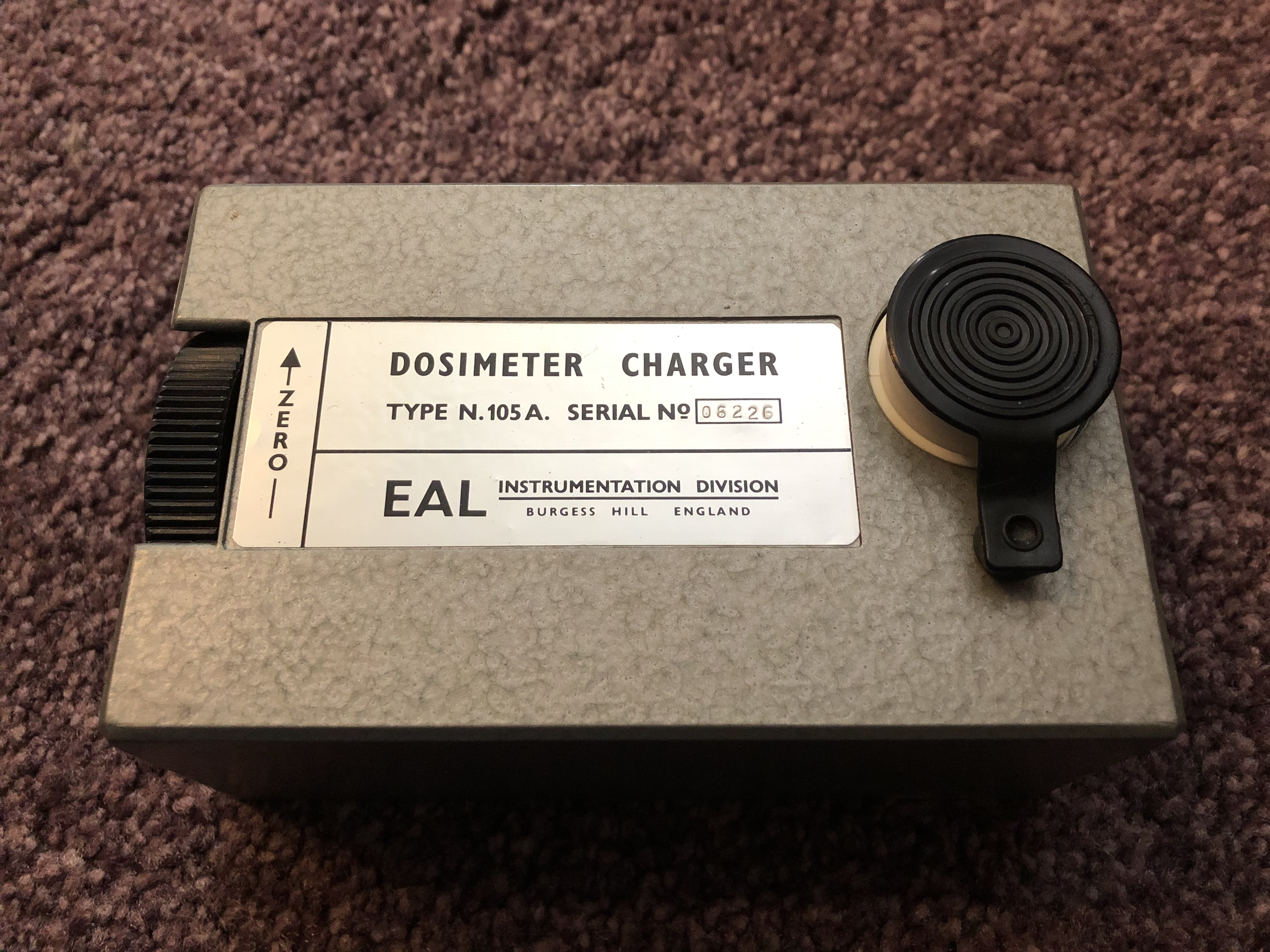 Dosimter charger used by the Royal Observer Corps.